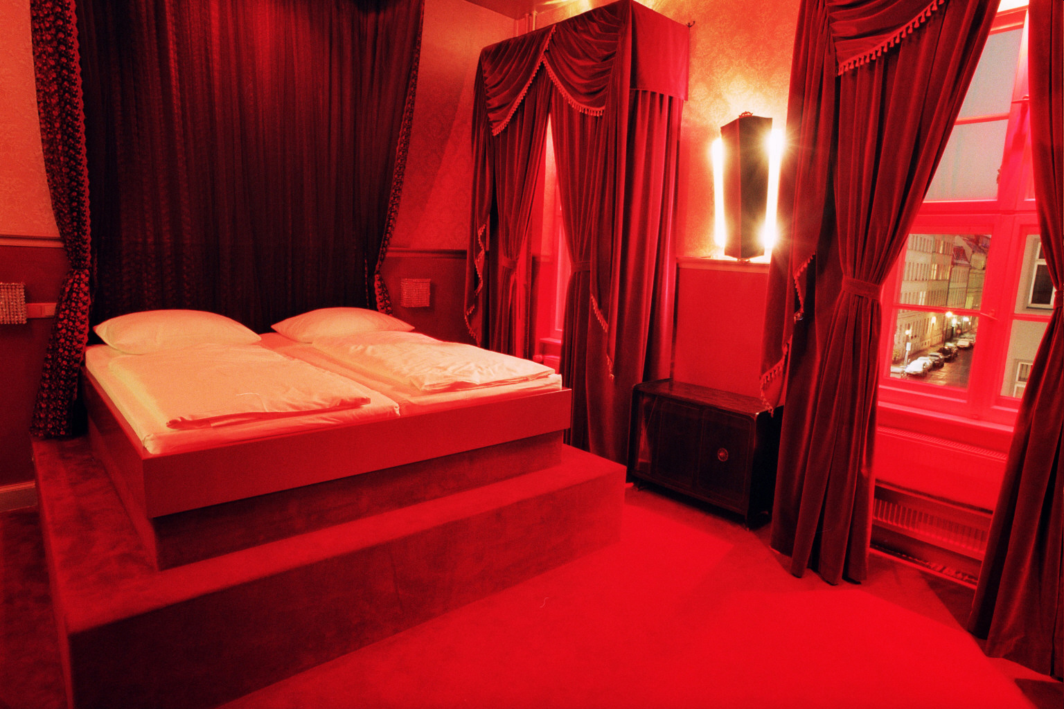 Berlin Hotel Louise